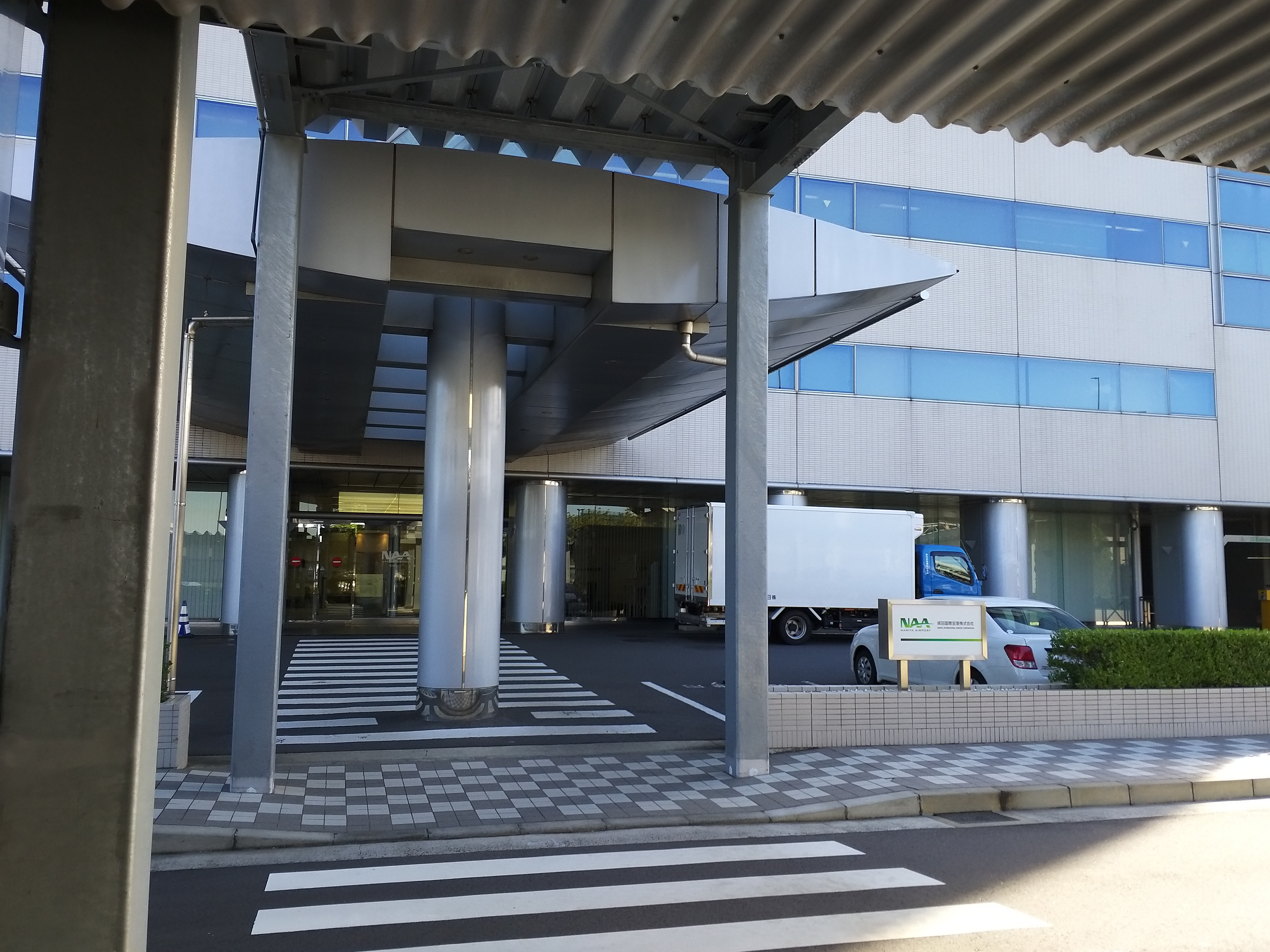 NAA Building - Narita Airport Authority headquarters at Narita Airport